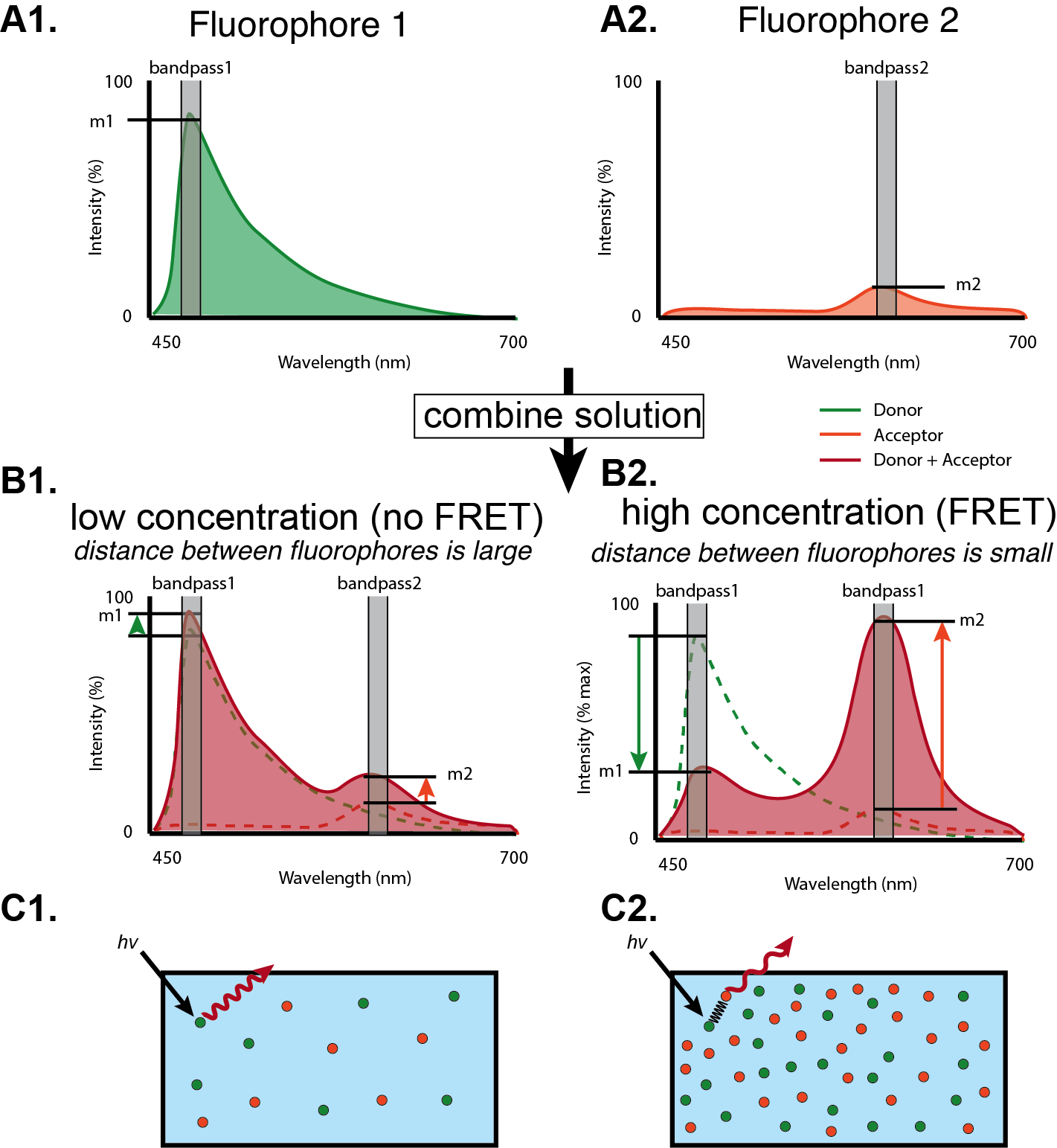 This is a cartoon diagram of the concept of Förster resonance energy transfer (FRET). A, Two hypothetical flourophores that fluoresce at two different wavelengths. B1, When these flourophores are mixed at low concentrations there is little FRET (low FRET efficiency) because the distance between flourophores is high. B2, At high concentrations the distance between flourophores is small resulting in high FRET efficiency. C, Diagram demonstrating the mechanism of FRET.